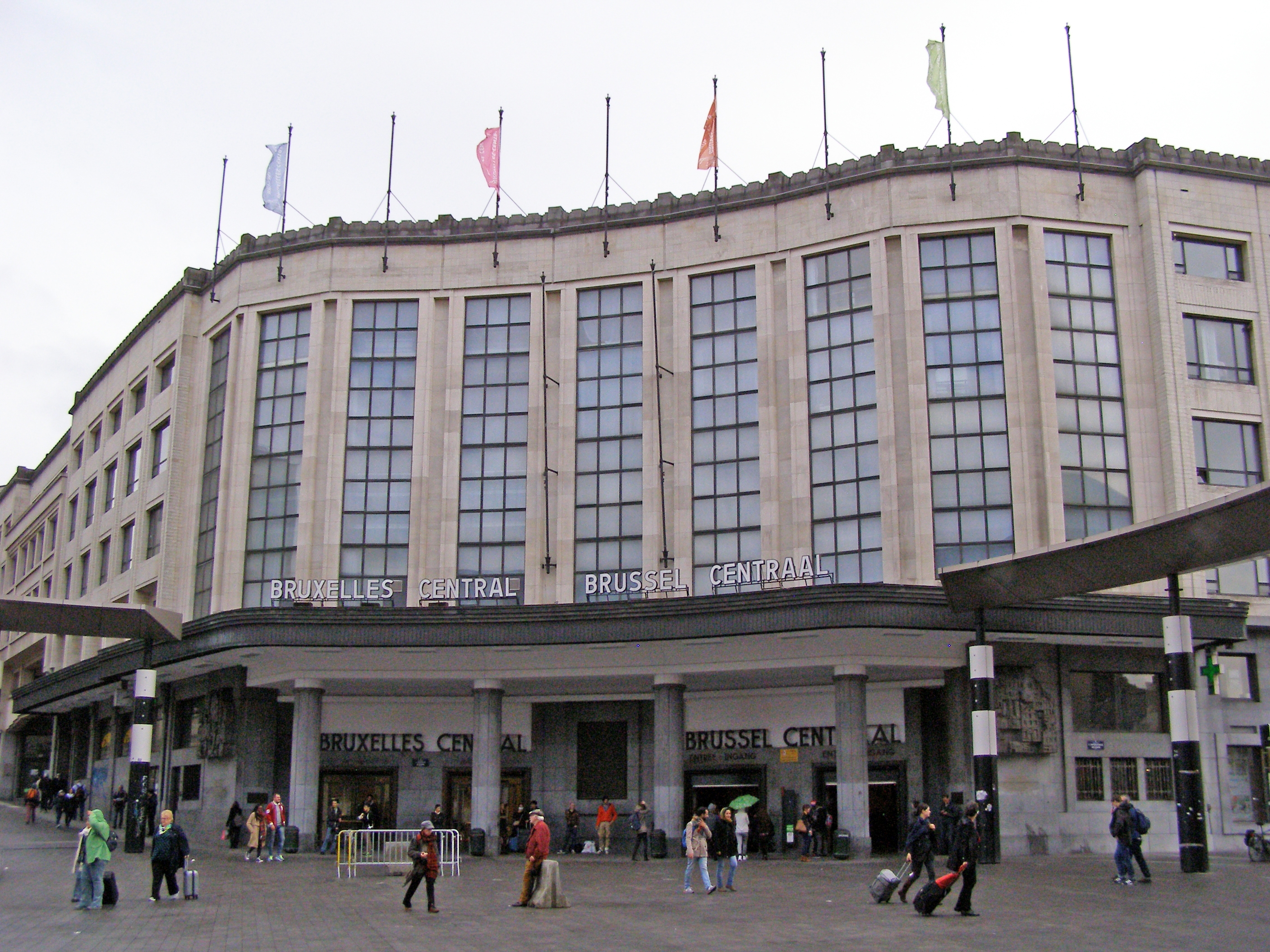 Brussels - Bruxelles Central/Brussel Centraal railway station building